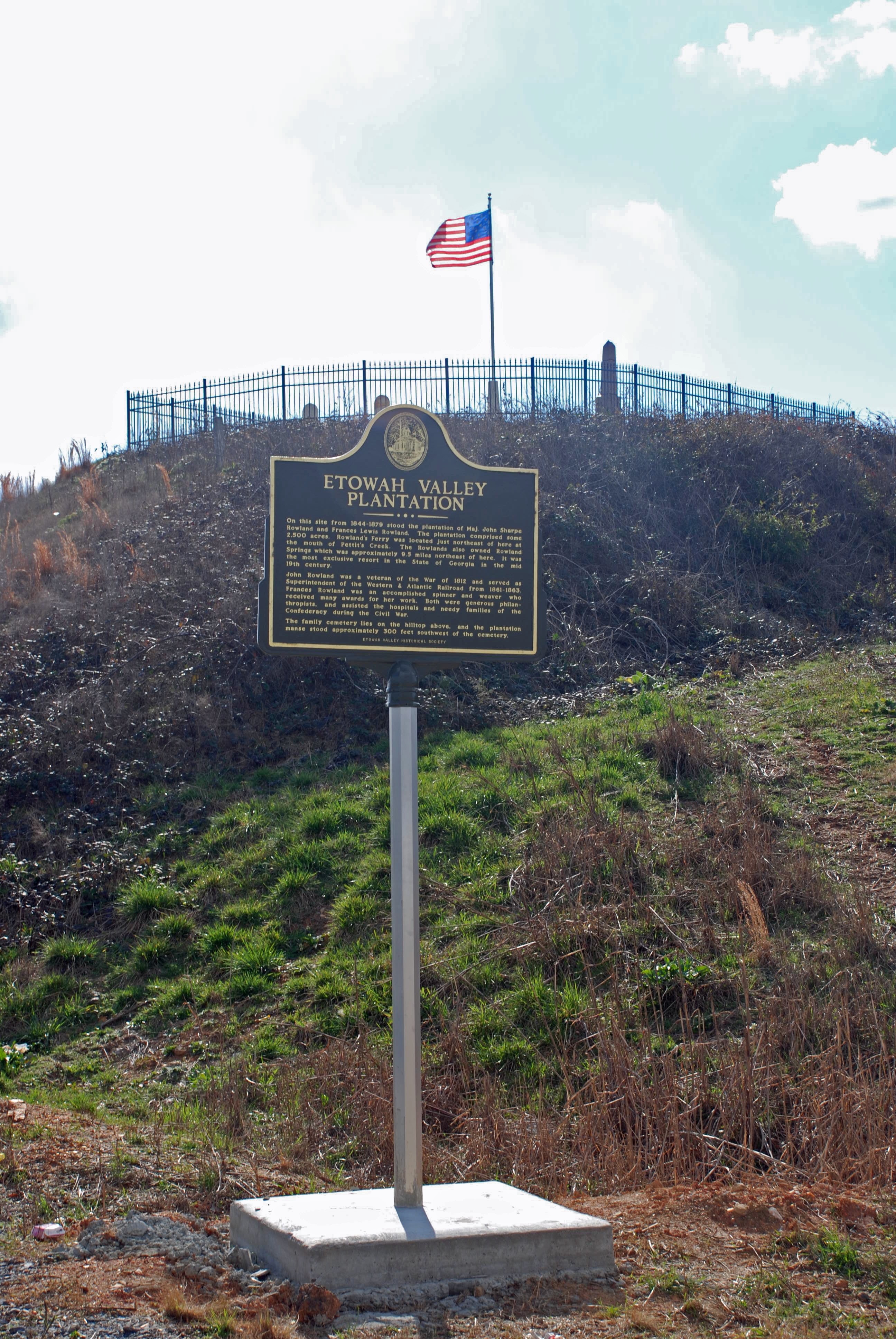 Rowland Family Cemetery in background Historical marker reads: Etowah Valley Plantation On this site from 1844-1879 stood the plantation of Maj. John Sharpe Rowland and Frances Lewis Rowland. The plantation comprised some 2,500 acres. Rowland's Ferry was located just northeast of here at the mouth of Pettit's Creek. The Rowlands also owned Rowland springs which was approximately 9.5 miles northeast of here. It was the most exclusive resort in the State of Georgia in the mid 19th century. John Rowland was a veteran of the War of 1812 and served as Superintendent of the Western & Atlantic Railroad from 1861-1863. Frances Rowland was an accomplished spinner and weaver who received many awards for her work. Both were generous philan- thropists, and assisted the hospitals and needy familities of the Confederacy during the Sivil War. The family cemetery lies on the hilltop above, and the plantation manse stood approximately 300 feet southwest of the cemetery. Etoway Valley Historical Society